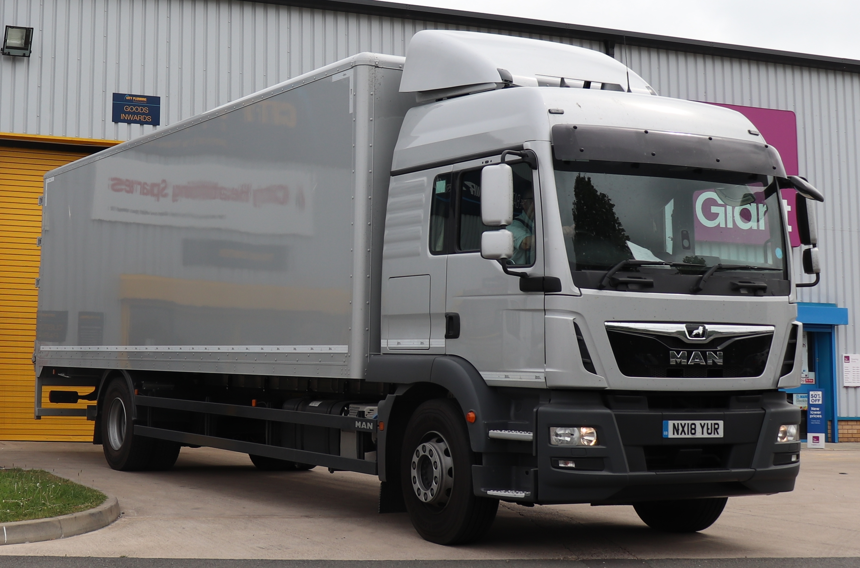 2018 MAN TGM 6.9 (Shiny new MAN) Taken in Leamington Spa